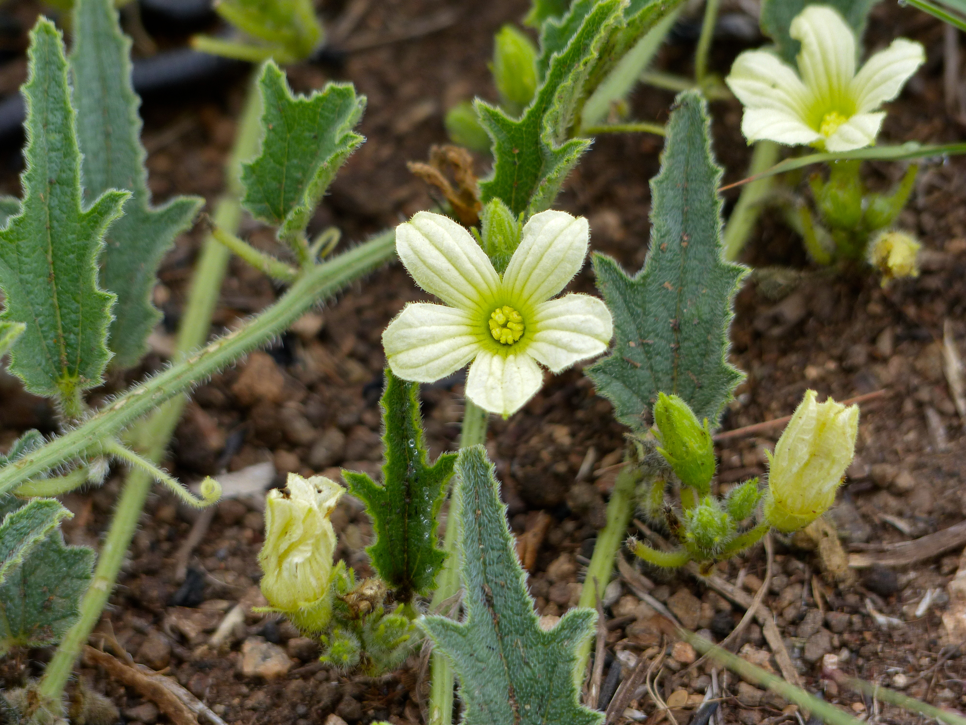 S143 Road East of Mopani, Kruger NP, SOUTH AFRICA